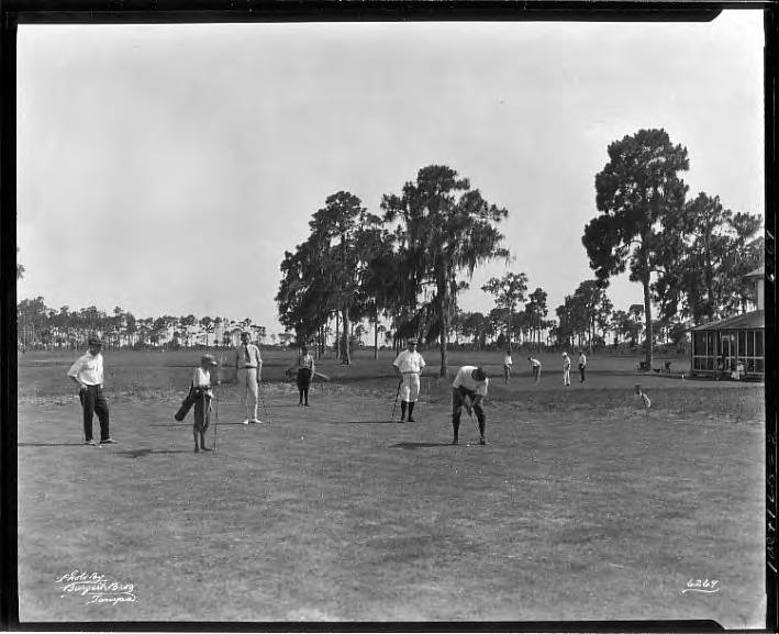 Courtesy, Tampa-Hillsborough County Public Library System.